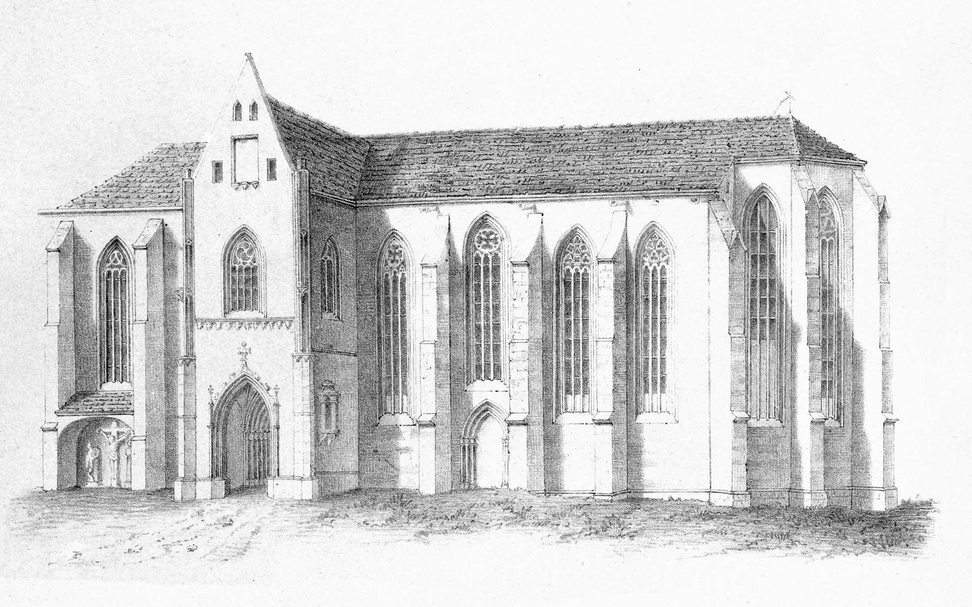 Bild aus den Mittheilungen der kaiserl. königl. Central-Commission zur Erforschung und Erhaltung der Baudenkmale Band 3, 1858. Die inhaltliche Zuordnung entsprechend des in derselben Kategorie befindlichen Artkikels (PDF-Dokument) Scanprojekt Bundesdenkmalamt Österreich This scan or this PDF-file was created within the Austrian Wikipedia-project Denkmalpflege Österreich (German only) supported by Wikimedia Germany and Wikimedia Austria as part of the Wikipedia community-project to collect public domain documents from the library of the Heritage Monuments Board of Austria. This document describes or depicts an object which is located in Slovakia today. Texts are written in German language. Send requests for uncompressed scans to Hubertl. This work is in the public domain in the United States, and those countries with a copyright term of life of the author plus 100 years or less. This file has been identified as being free of known restrictions under copyright law, including all related and neighboring rights.